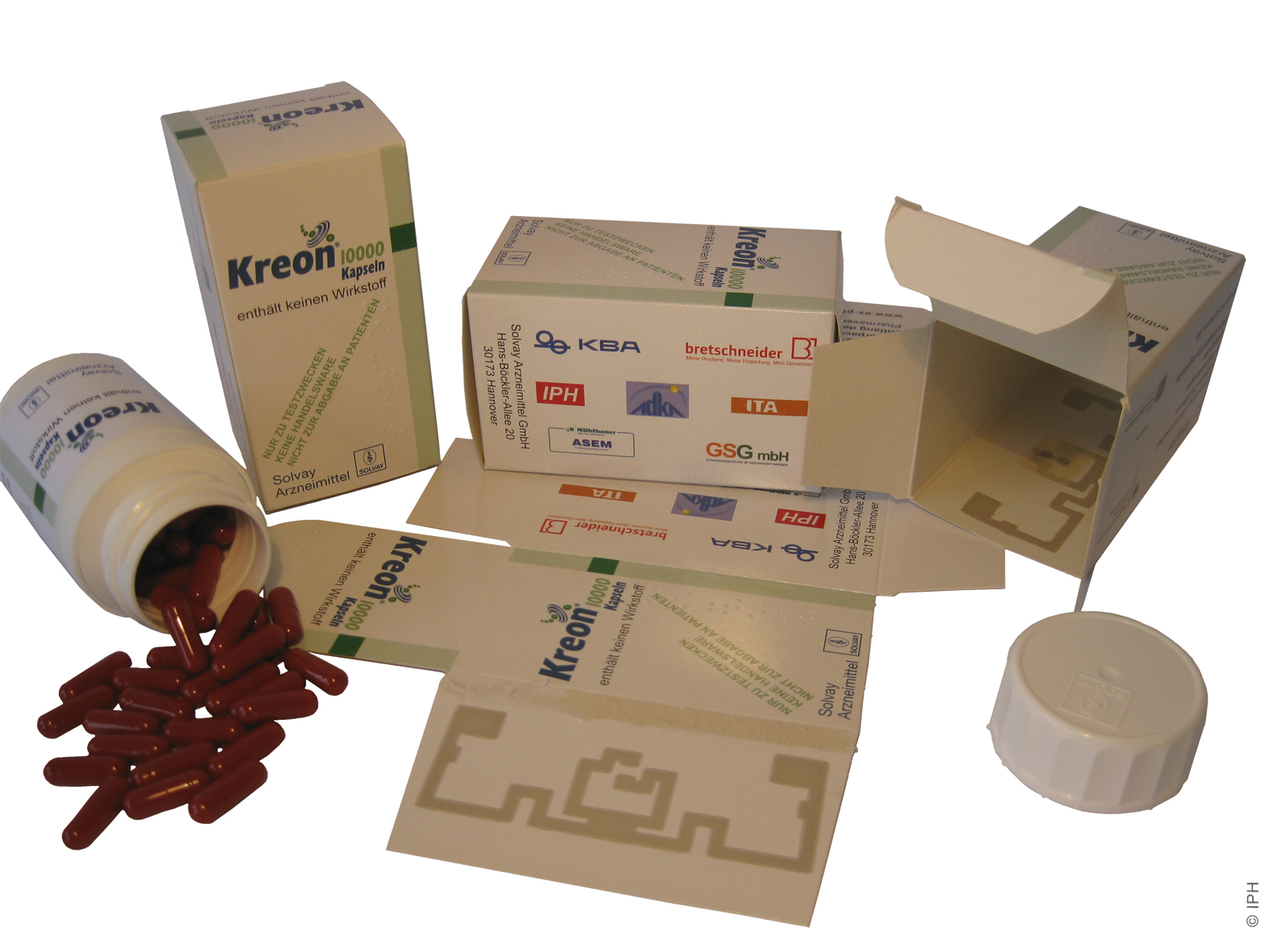 Wireless communication and its use on production sites is on of the research topics investigated by IPH - Institut für Integrierte Produktion Hannover. To eliminate product counterfeiting of drugs, a new method of integrating RFID tags and antennas into drug packages was developed as part of the EZ pharm project. To learn more about the project, go to